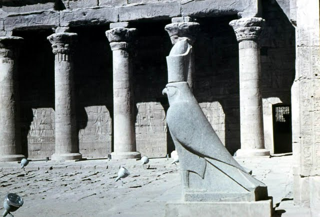 Horus sculpture in courtyard (scanned from slides, 1969)